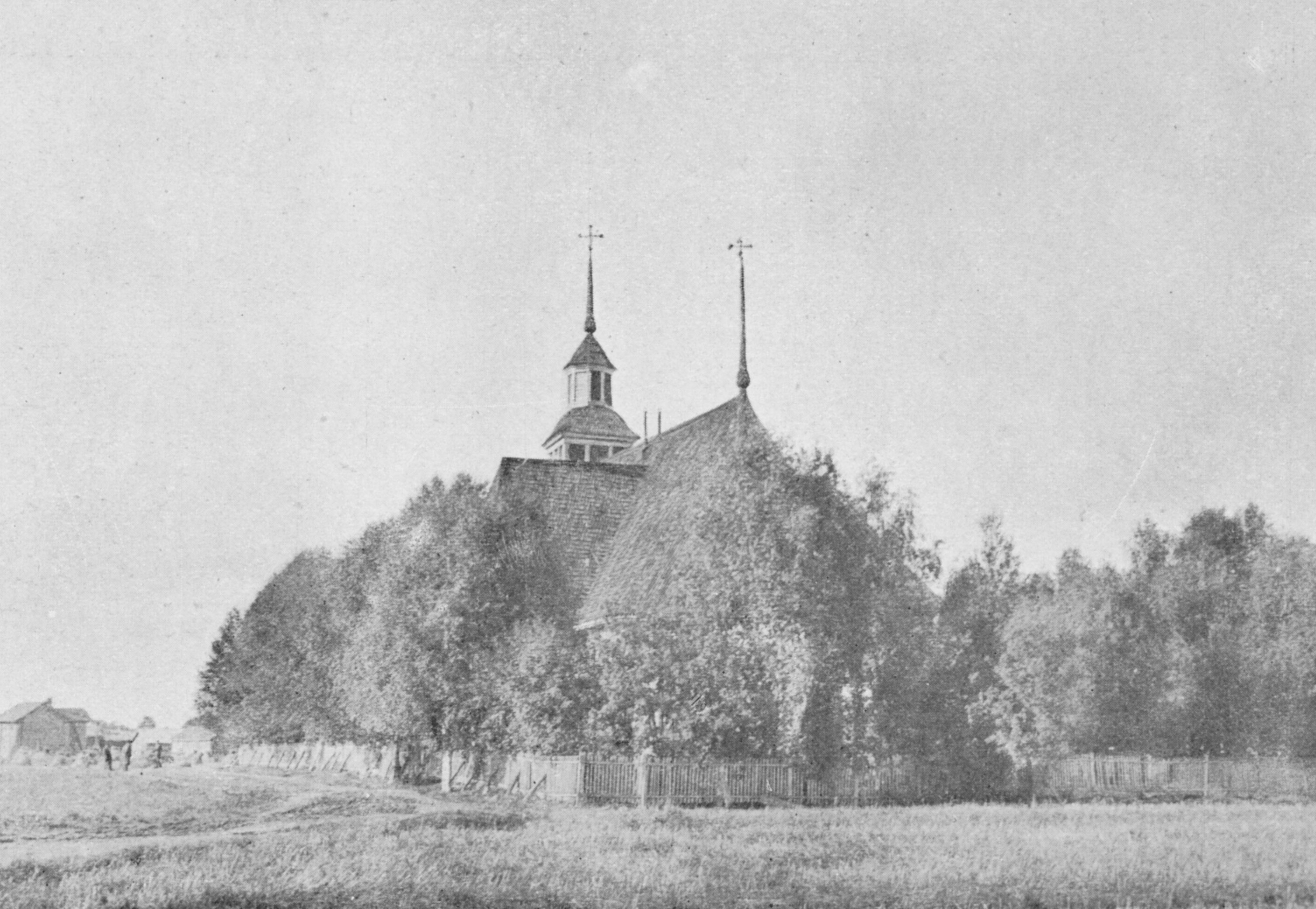 The old church of Kauhava, Finland.